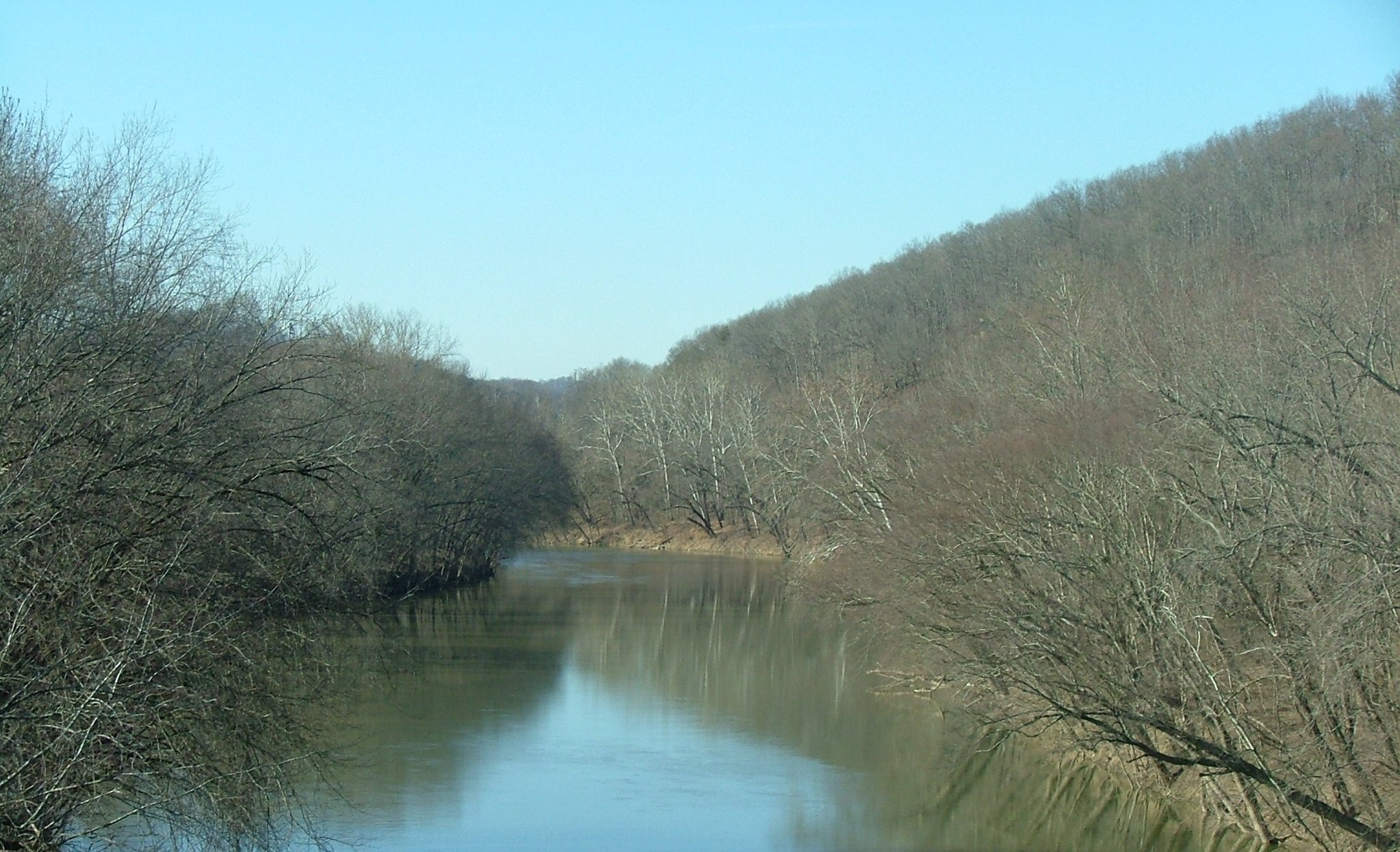 Taken from Bridge in Louisa, KY.